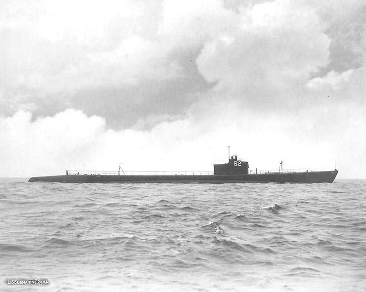 USS Seal (SS-183) photographed when first completed, circa mid-1938. Original caption: “Photo # NH 91833 USS Seal, circa 1938” — removed caption